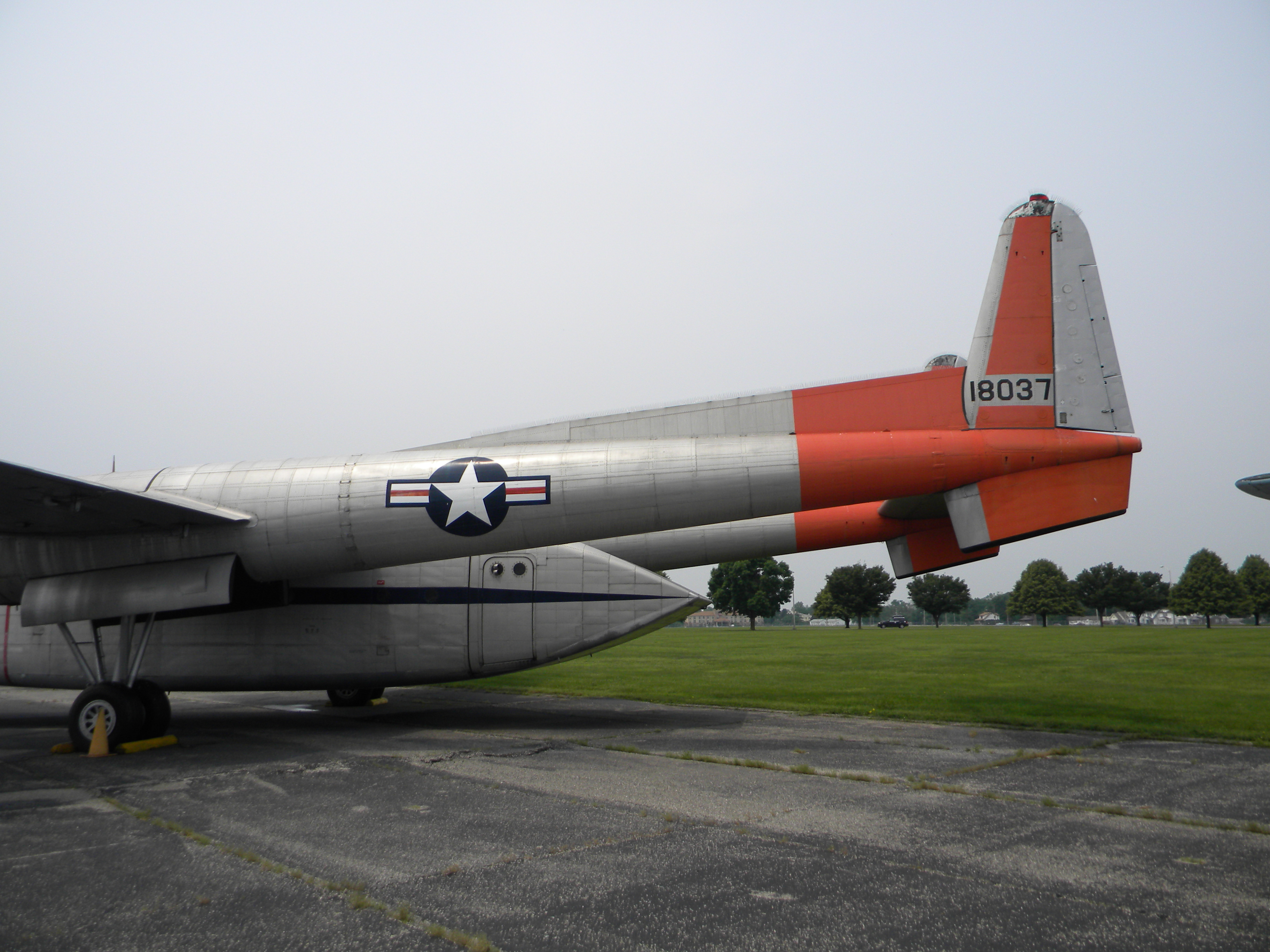 Fairchild C-119J Flying Boxcar